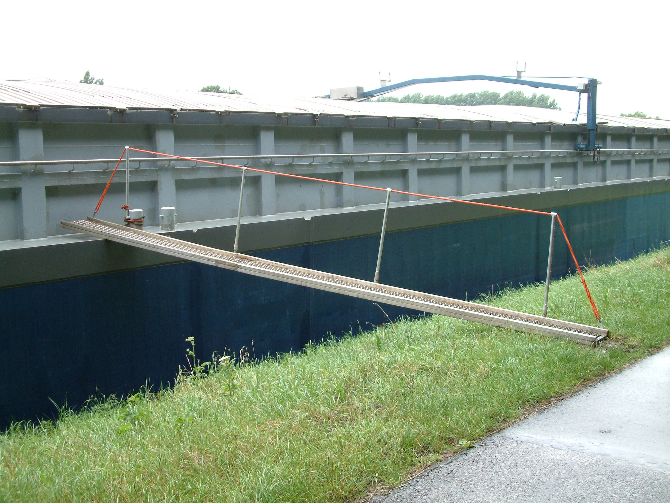 Gangway according Dutch law